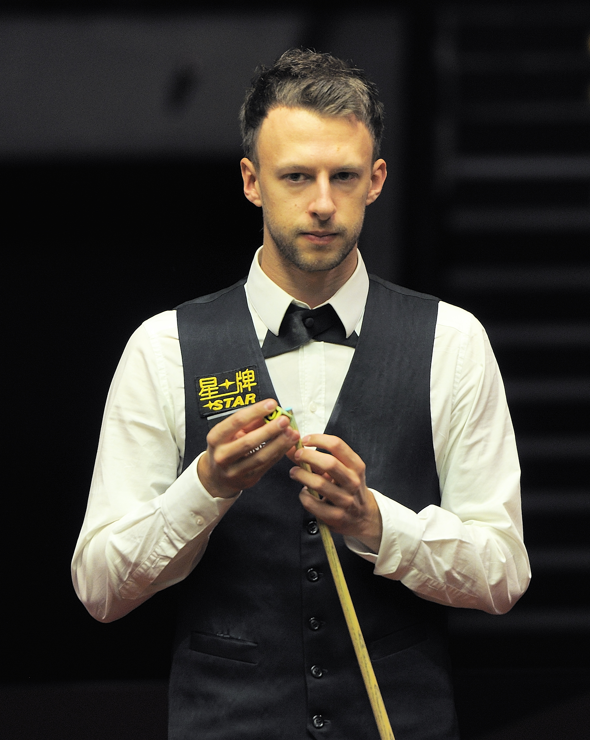 Picture taken in Berlin during the Snooker German Masters in 2014. Judd Trump.